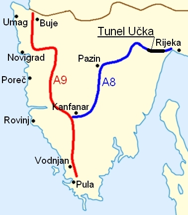 Location of Učka tunnel, Croatia